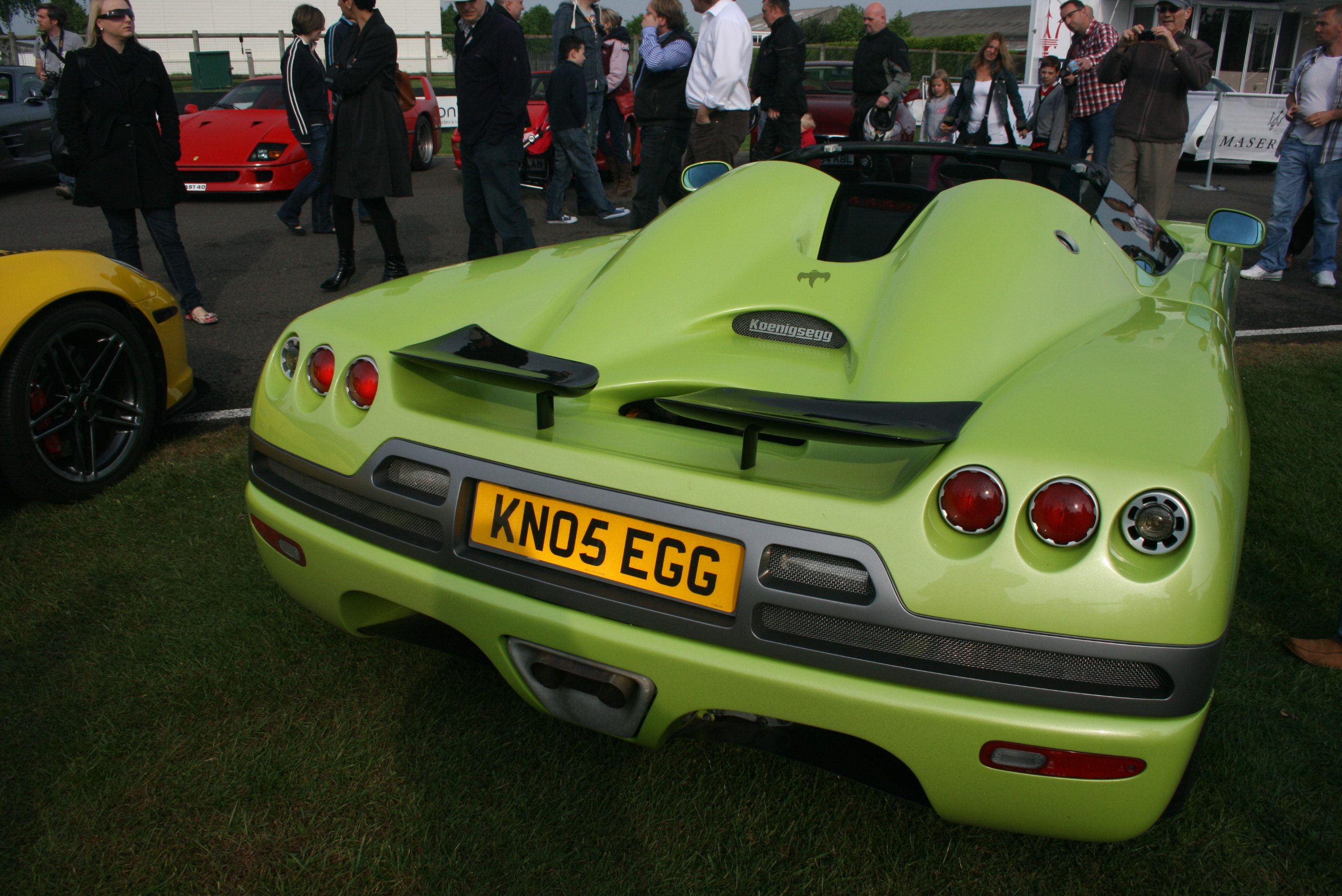 Great plate on this Koenigsegg CCR